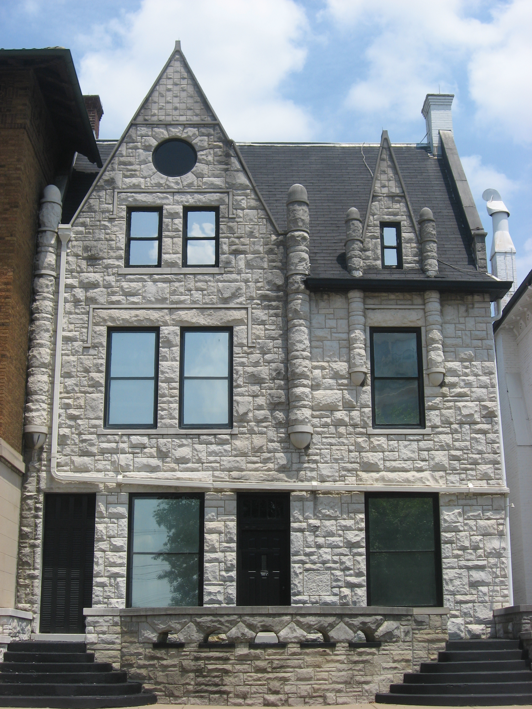 Front of the Busse House, located at 120 SE. First Street in Evansville, Indiana, United States. Built in 1901, it is listed on the National Register of Historic Places.